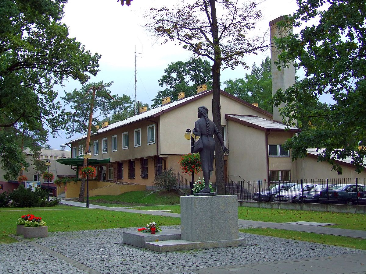 Town Hall in Józefów, Otwock County, Poland, along with Female Couriers of Home Army monument.